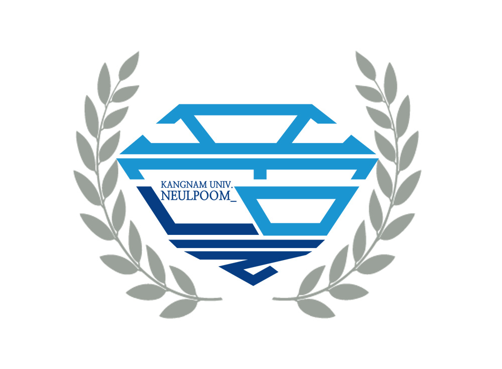 NEULPOOM